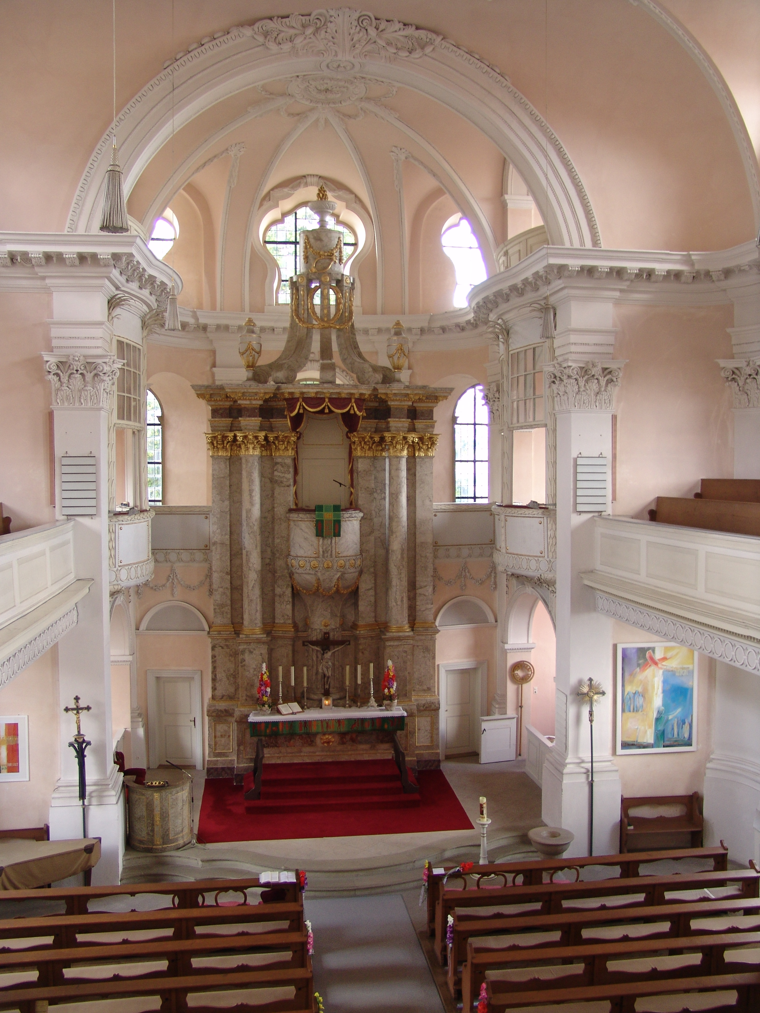 evang.-luth. Kirche St. Johannes in Castell